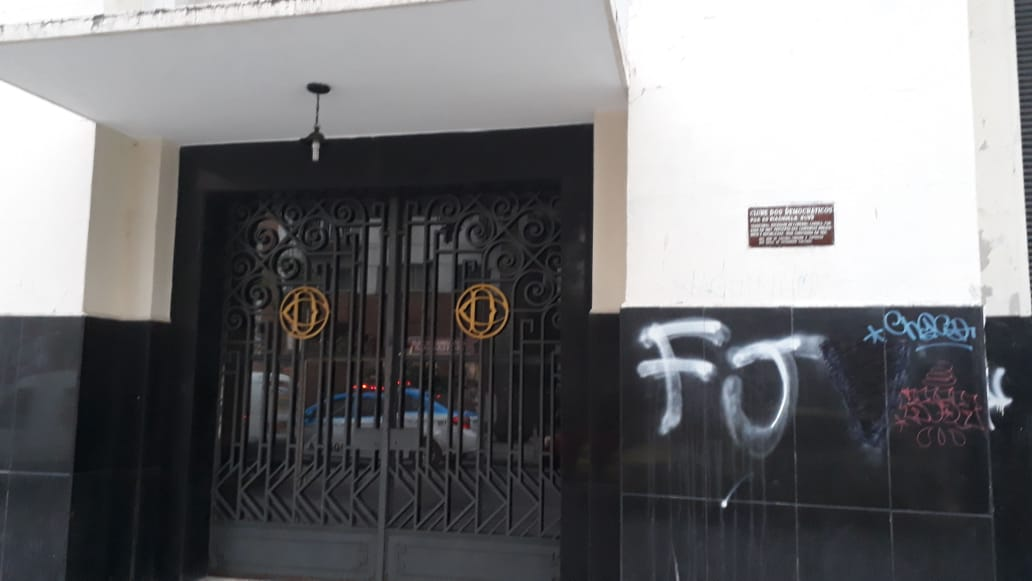 Clube dos Democráticos